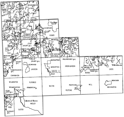 Township map of Will County, Illinois